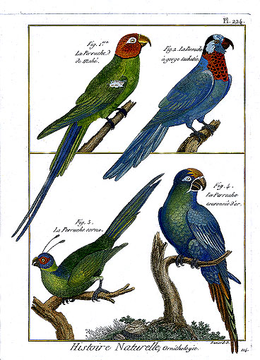 Plate showing 1. La Perruche de Mahe (Psittacula cyanocephala, formerly P. bengalensis[1]) 2. La Perruche a gorge tachetee 3. La Perruche cornu 4. La Perruche coouronnee d'or. (1770-75). From the 3rd edition of Denis Diderot (1713-1784) and Jean Le Rond d'Alembert (1717-1783) Encyclopedie, ou Dictionnaire Raisonne des Sciences, des Arts et des Metiers.